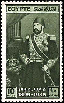 Express stamp 1945: Egypt 1945. The Khedive Isma'il Pasha. 50th death anniversary